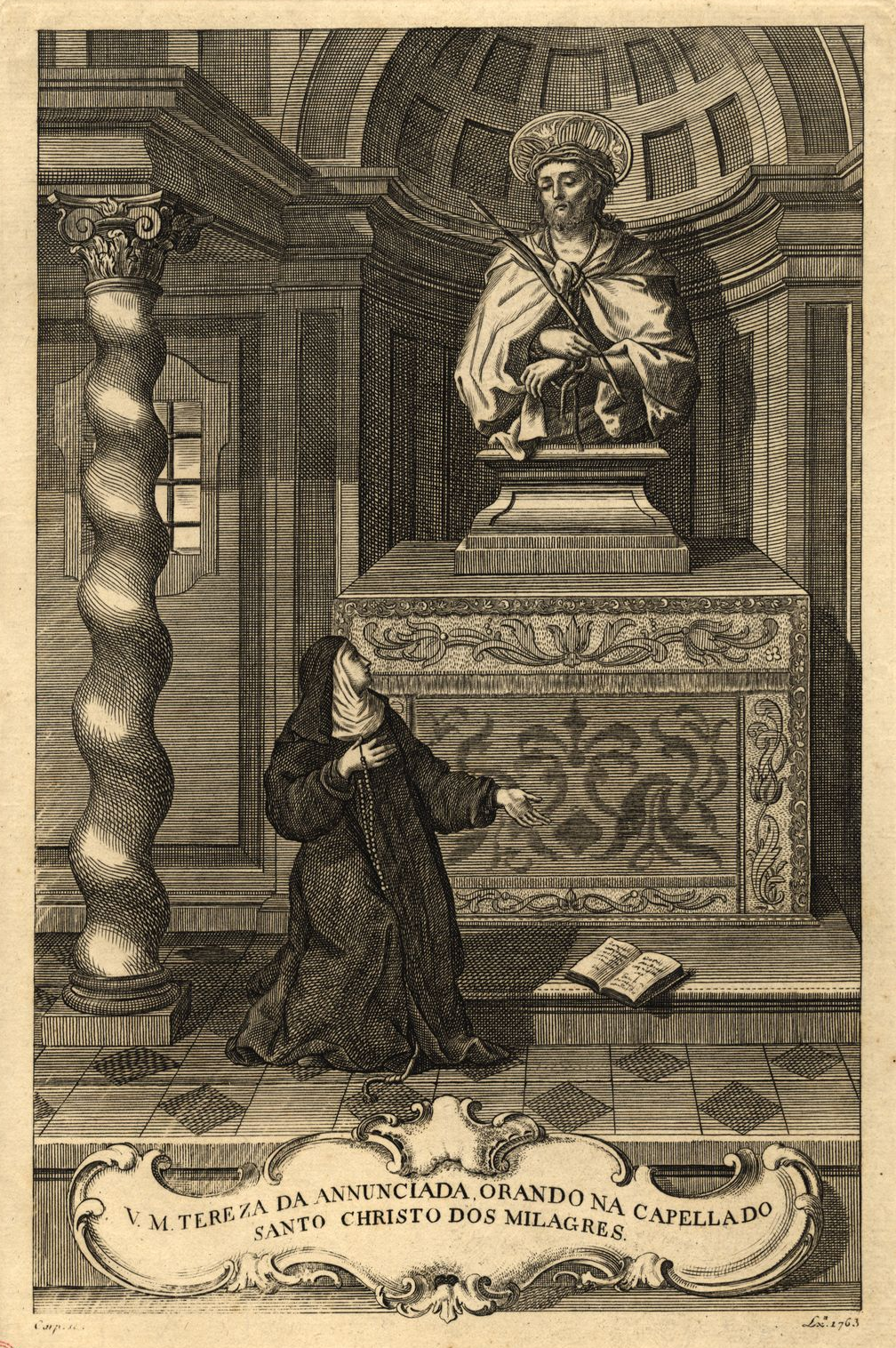 The Venerable Mother Theresa of the Annunciation prays in the chapel of the Lord Holy Christ of the Miracles, in a 1763 engraving.